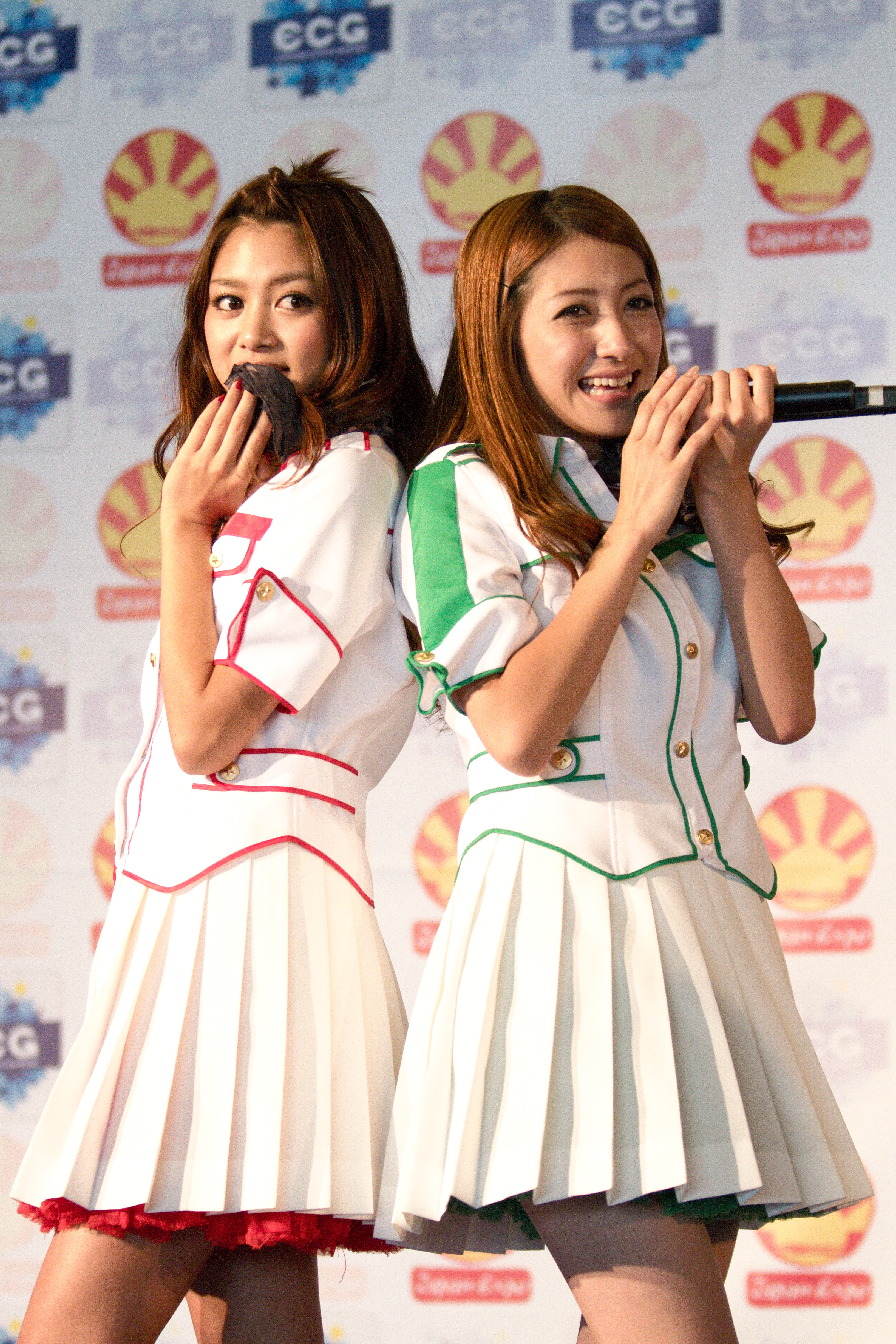 Questions and answers session with PASSPO ☆, followed by few songs live at Japan Expo 2011 (Paris, France).